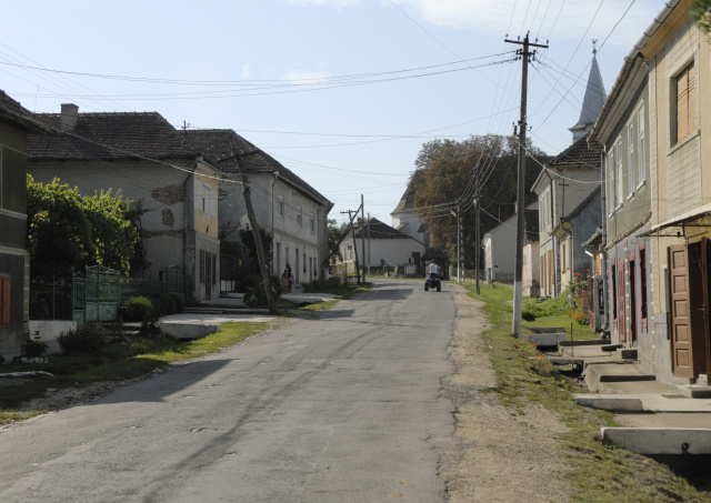 The photo was taken in the week of the "Hodod days", a local annual festival.